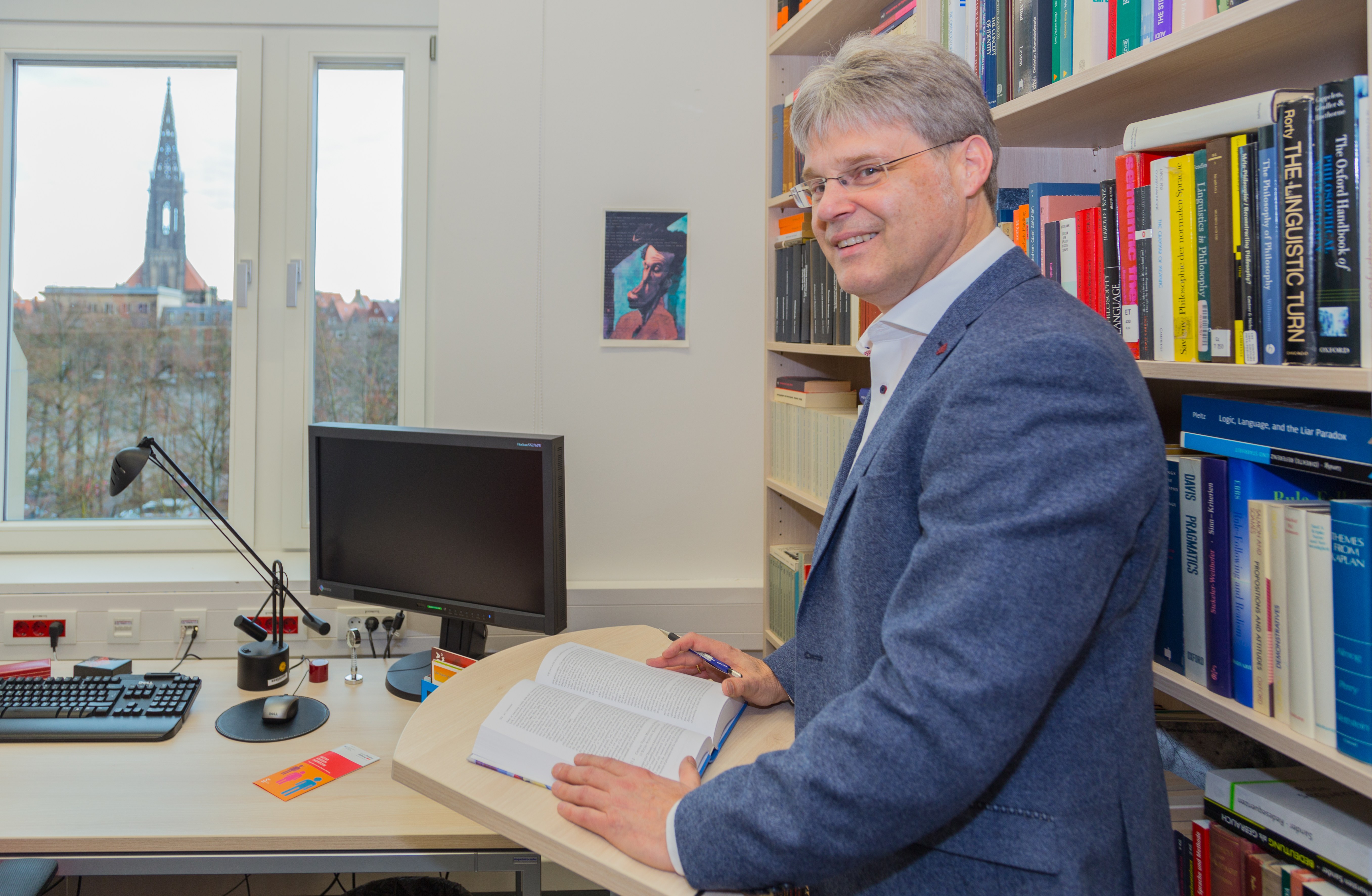 Dr. Michael Quante, Professor of Philosophy at the University of Münster (Westfälische Wilhelms-Universität Münster) and also the University's Vice-Rector for Internationalization and Knowledge Transfer. Picture taken in his office at the third floor of the Philosophikum, 23 Cathedral Square (Domplatz 23) in the city centre of Münster, North Rhine-Westphalia, Germany.